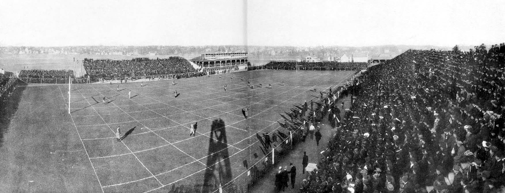 Panoramic photo of the Regents Field during the Western championship game: Michigan (22) v. Chicago (12). The match had an attendance of 13,500. The Regent Fields was the home venue for the Michigan Wolverines football team (1893-1905) and was demolished in 1923.